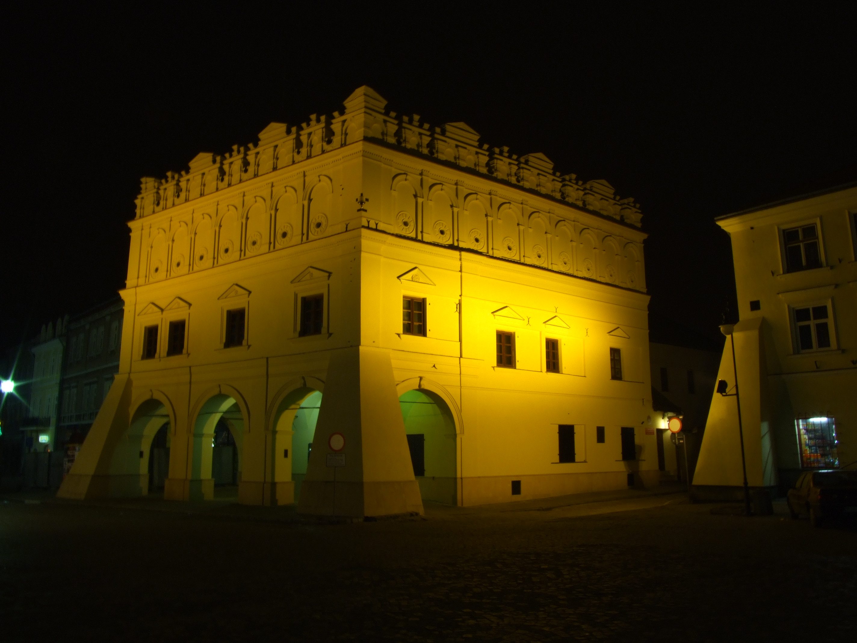 Orsetti house in Jarosław city centre, located on Rynek (main square). Jarosław is a city in Podkarpackie Voivodship in Poland, located near Ukrainian borderhelp